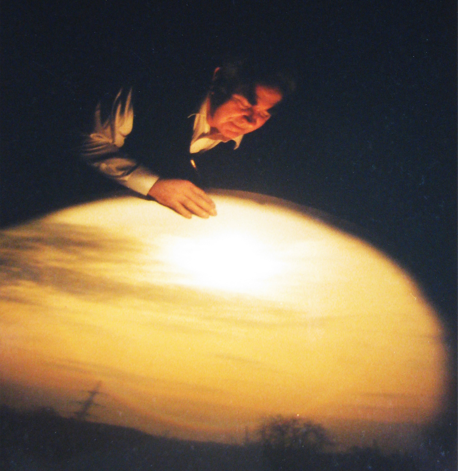 a man looking over the projected image of a sunset, generated by a camera obscura